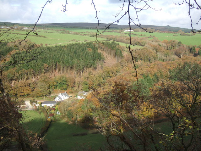 Autumnal view, Cwm Gwaun This view northwards across the Gwaun valley shows a cluster of houses around the school, part of the scattered settlement along the valley floor. The coniferous plantation on the opposite slope of the valley contrasts with the natural deciduous woodland in the foreground.